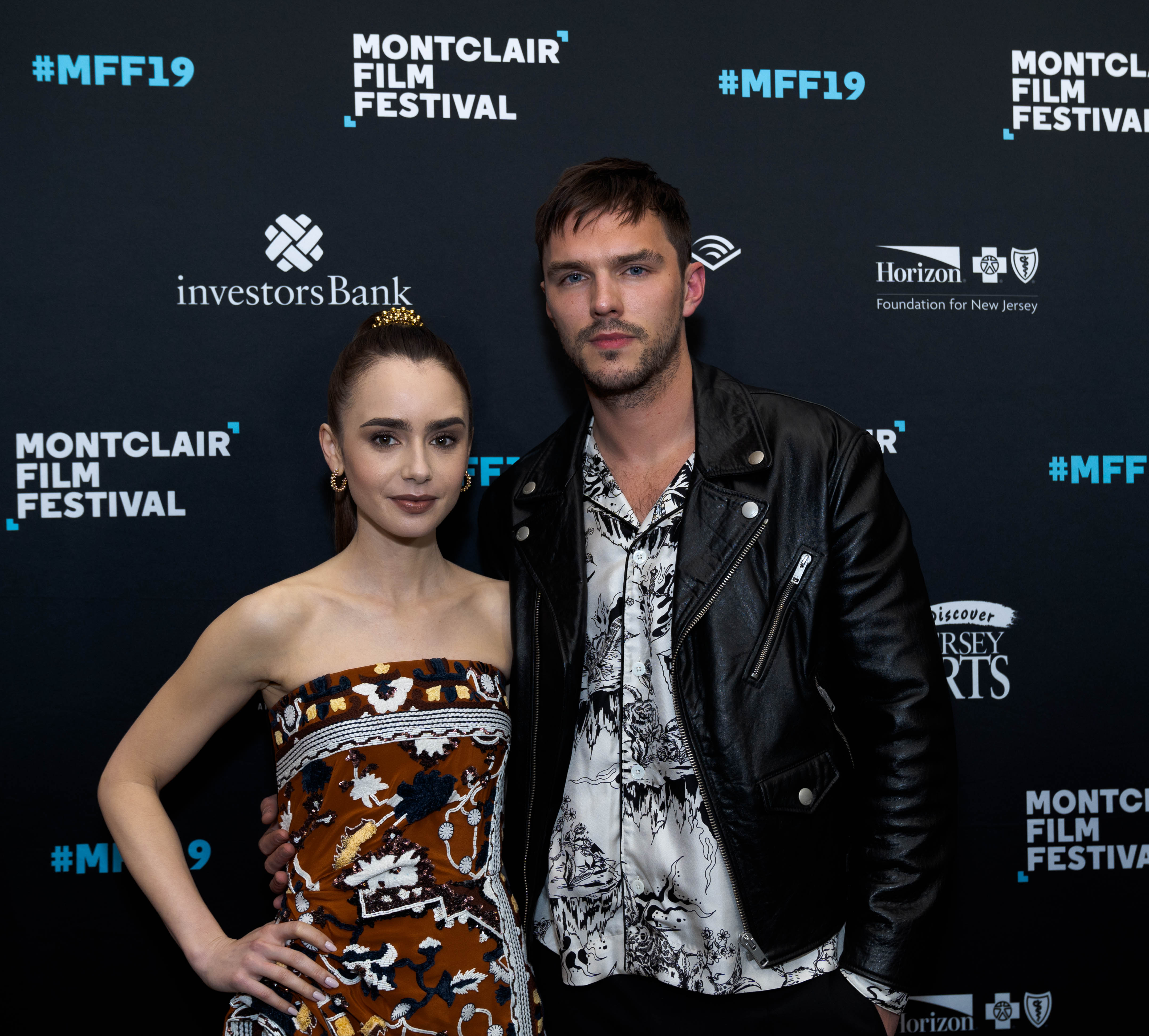 Photography by Fred Trauerts